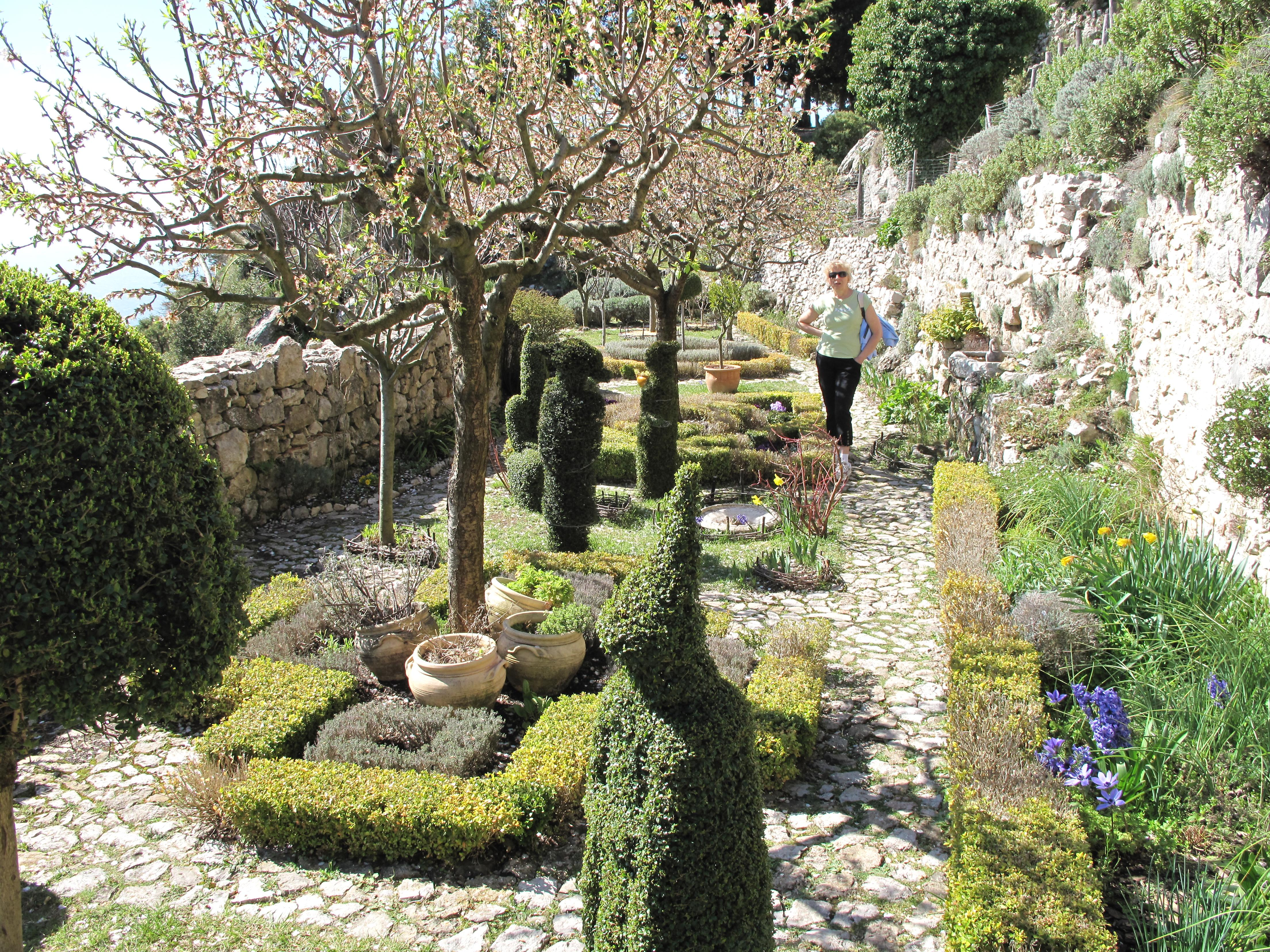 The medieval garden at the bottom of the castle of Sainte-Agnès (Alpes-Maritimes, France).